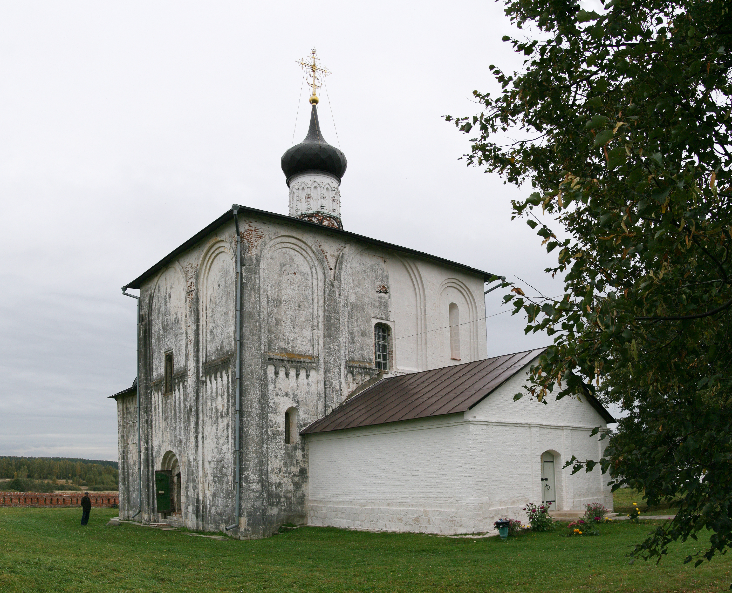 Saints Boris and Gleb Church in Kideksha, Vladimir oblast